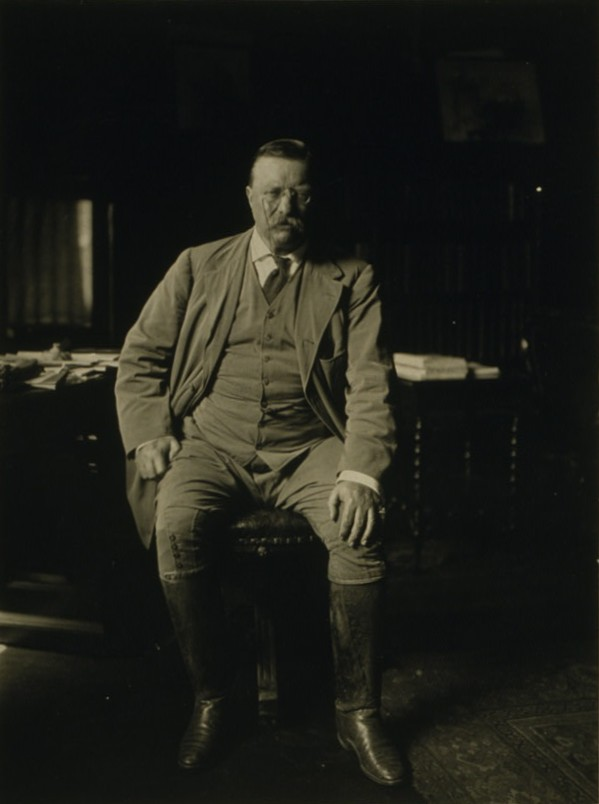 Former U.S. president Theodore Roosevelt, photographed by photographer William H. Rau in his library at Sagamore Hill in Oyster Bay, New York.